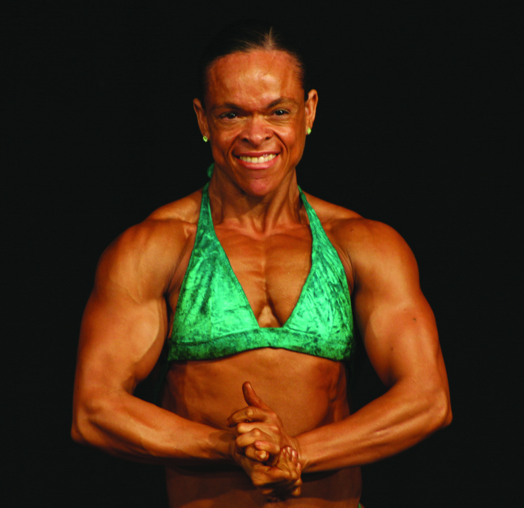 FBB Pectoralis muscle flex at the Bodybuilding - London Classic and Stars of Tomorrow 2007